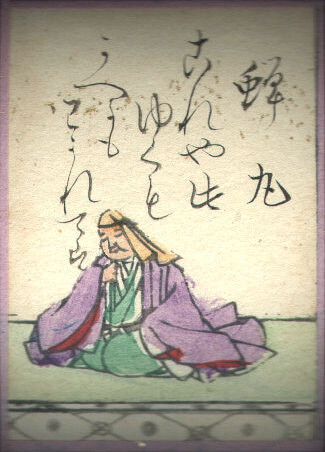 A portrait of Semimaru; illustration from an uta-garuta playing card for Hyakunin Isshu, created in the Edo period.